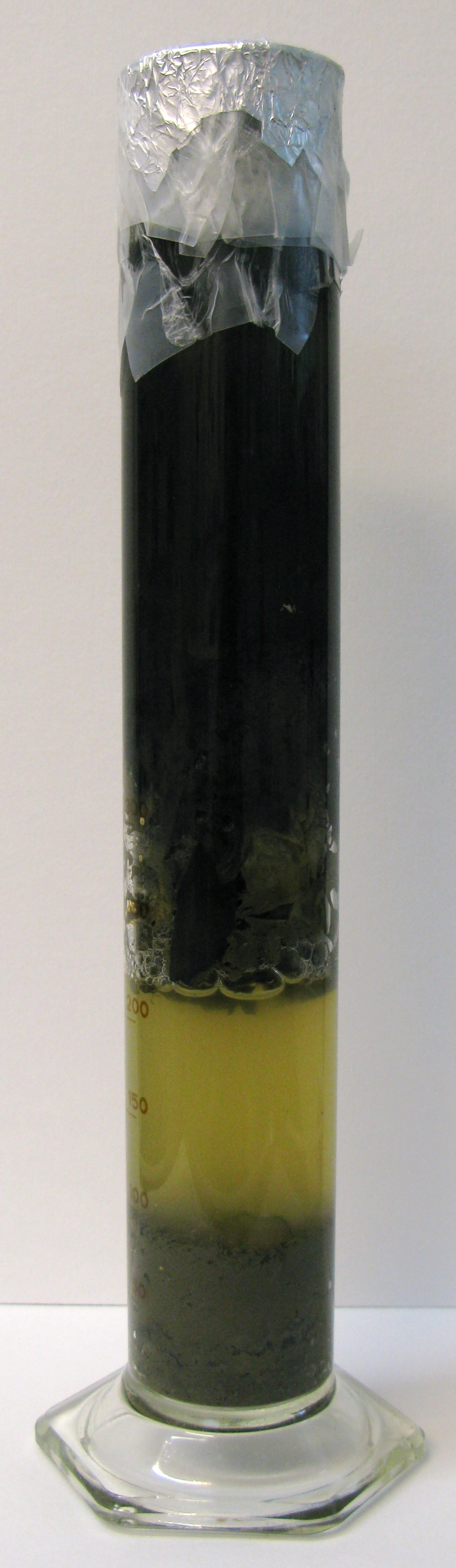 Winogradsky column, 30/04/2008